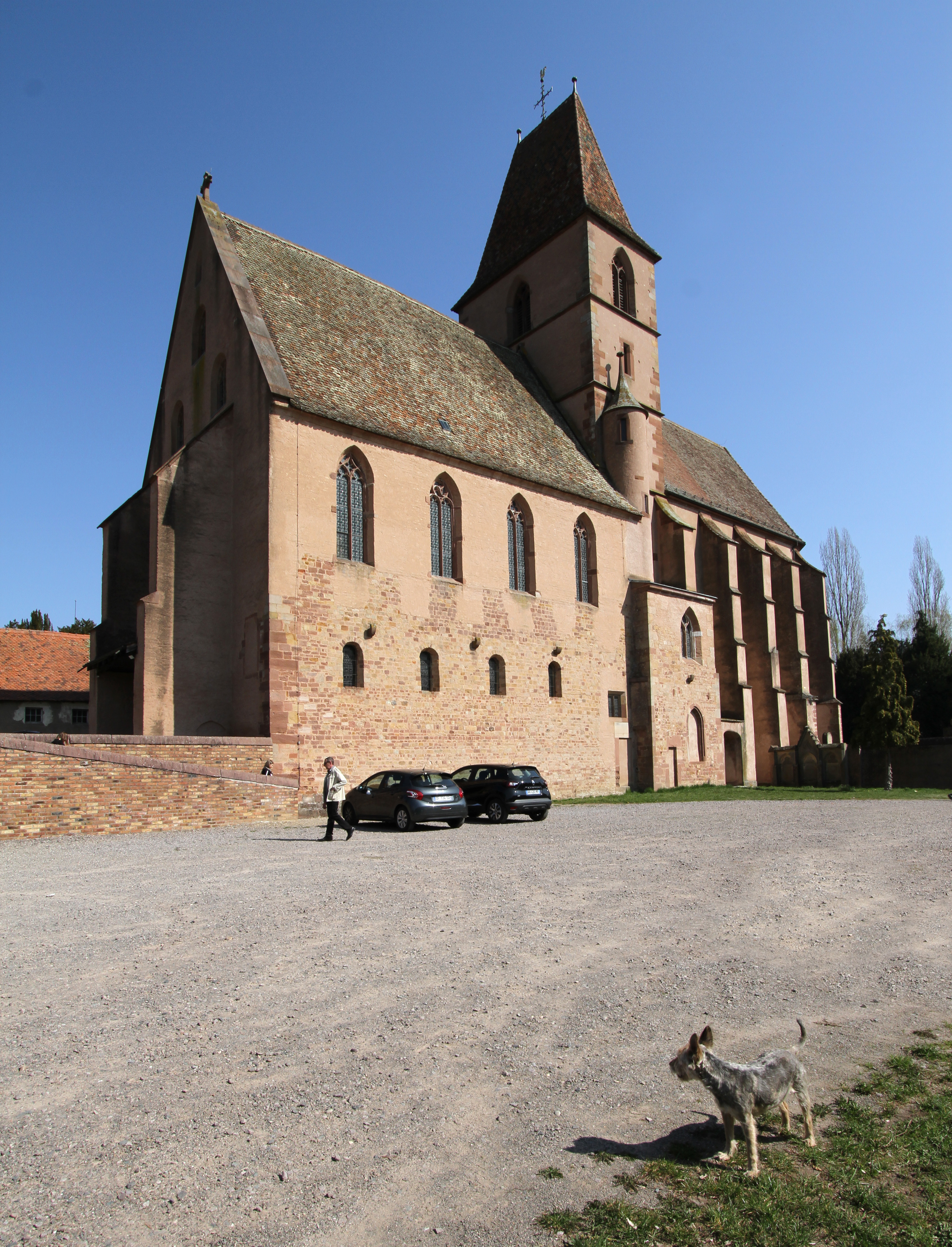 Church of Saint Walburg in Walbourg